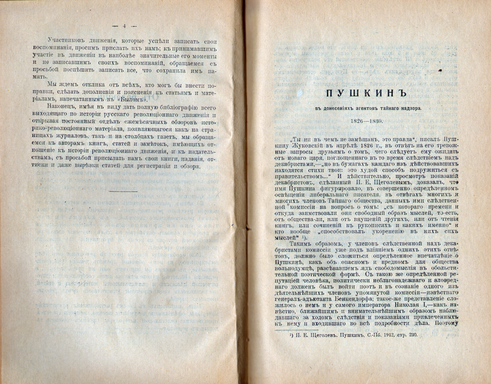 Pushkin, article by Boris Modzalevsky